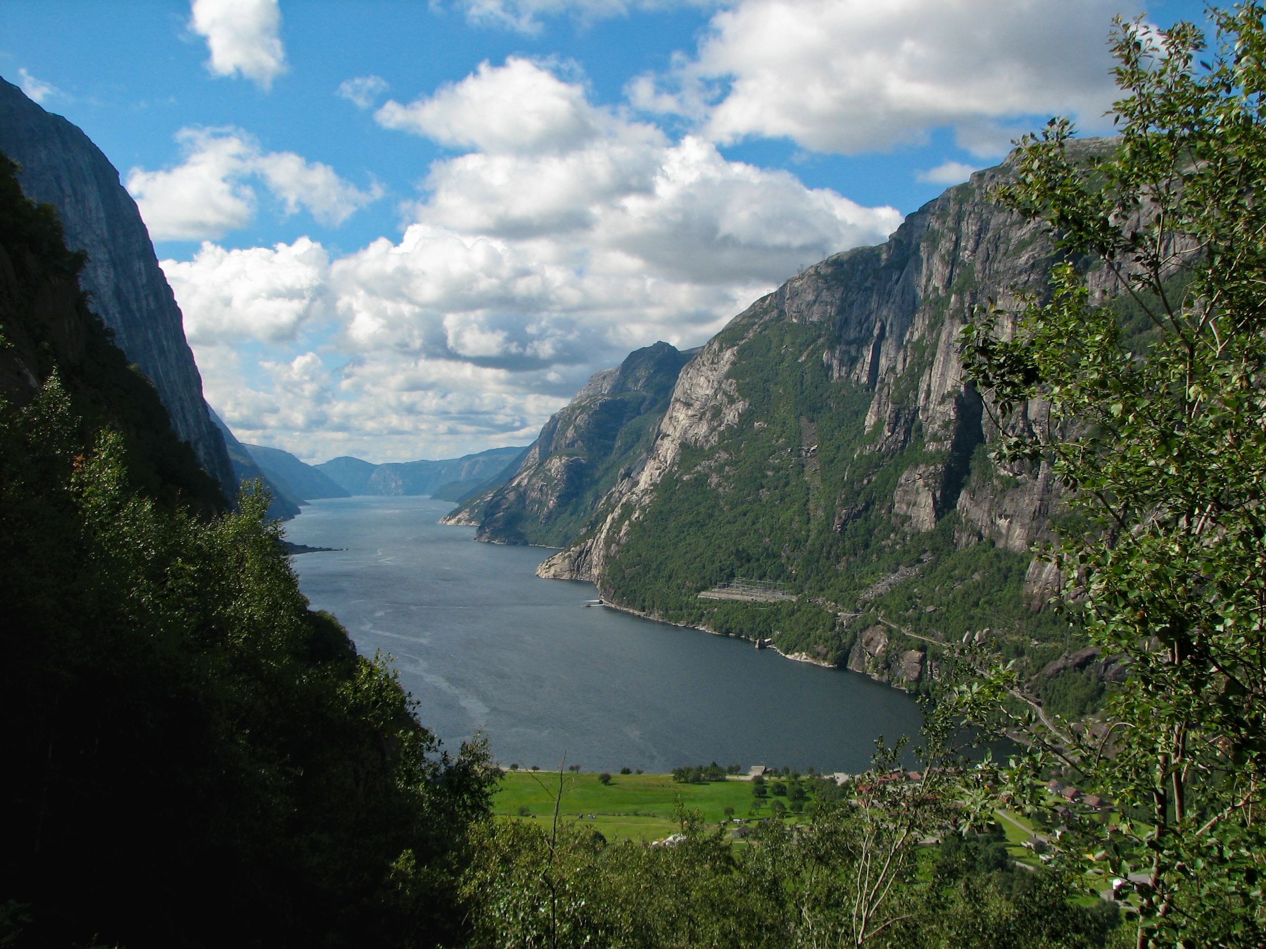 Lysefjorden - View from Lysebotn